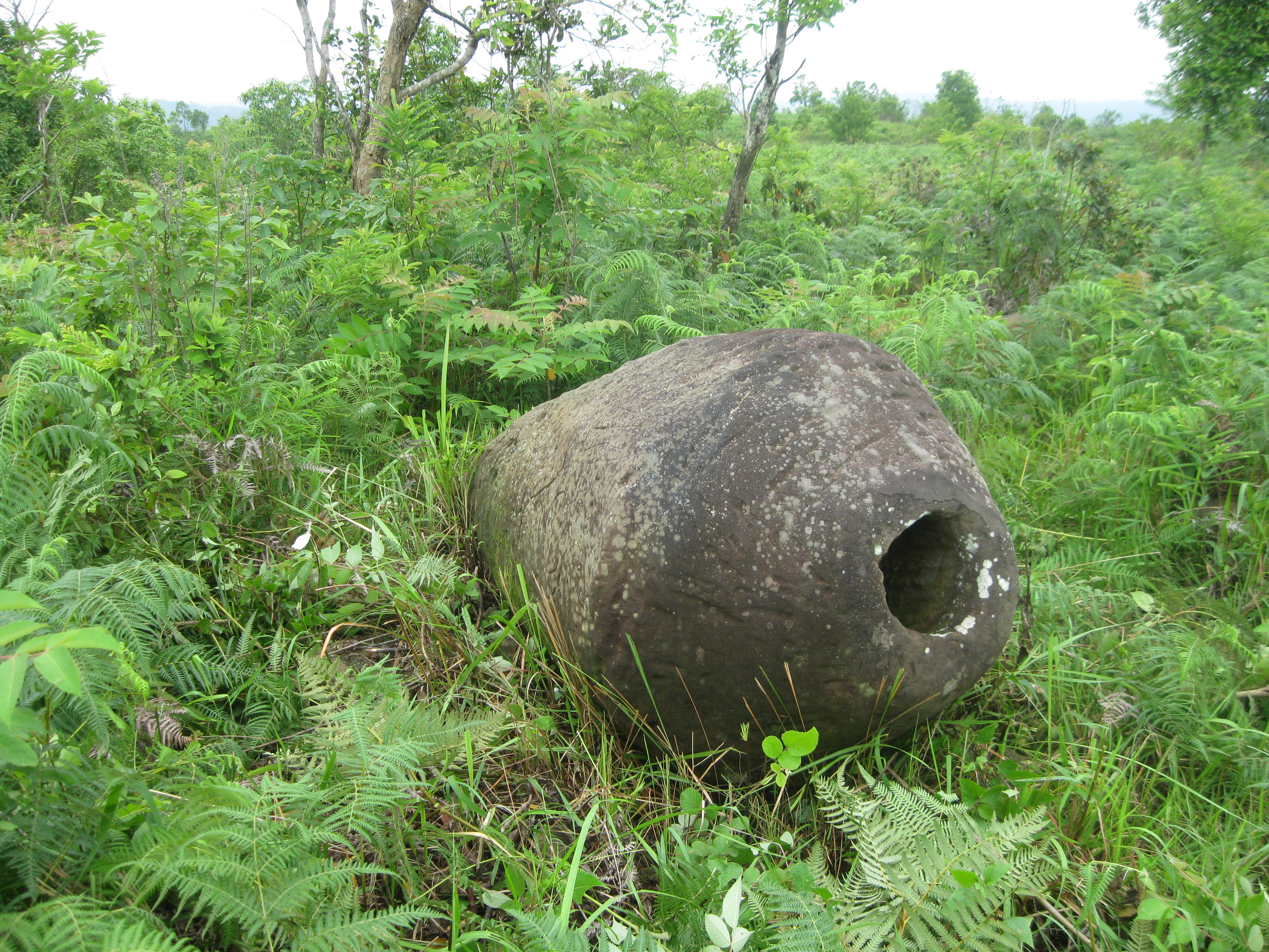 Lungzubel (rice beer container) made by Lamlira in Khobak village, Dima Hasao, Assam, India.